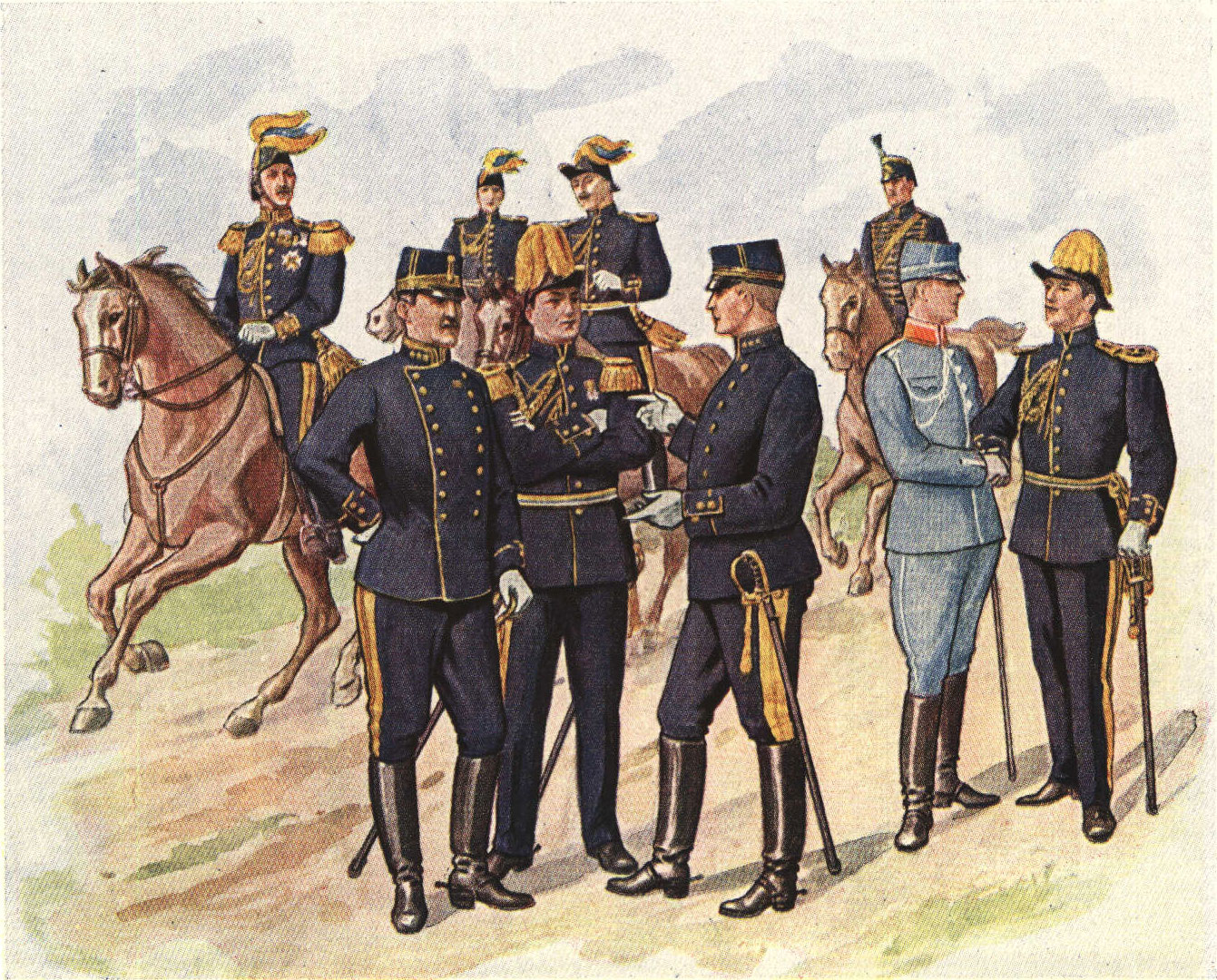 Uniforms of the Swedish army, Generals and General Staff.